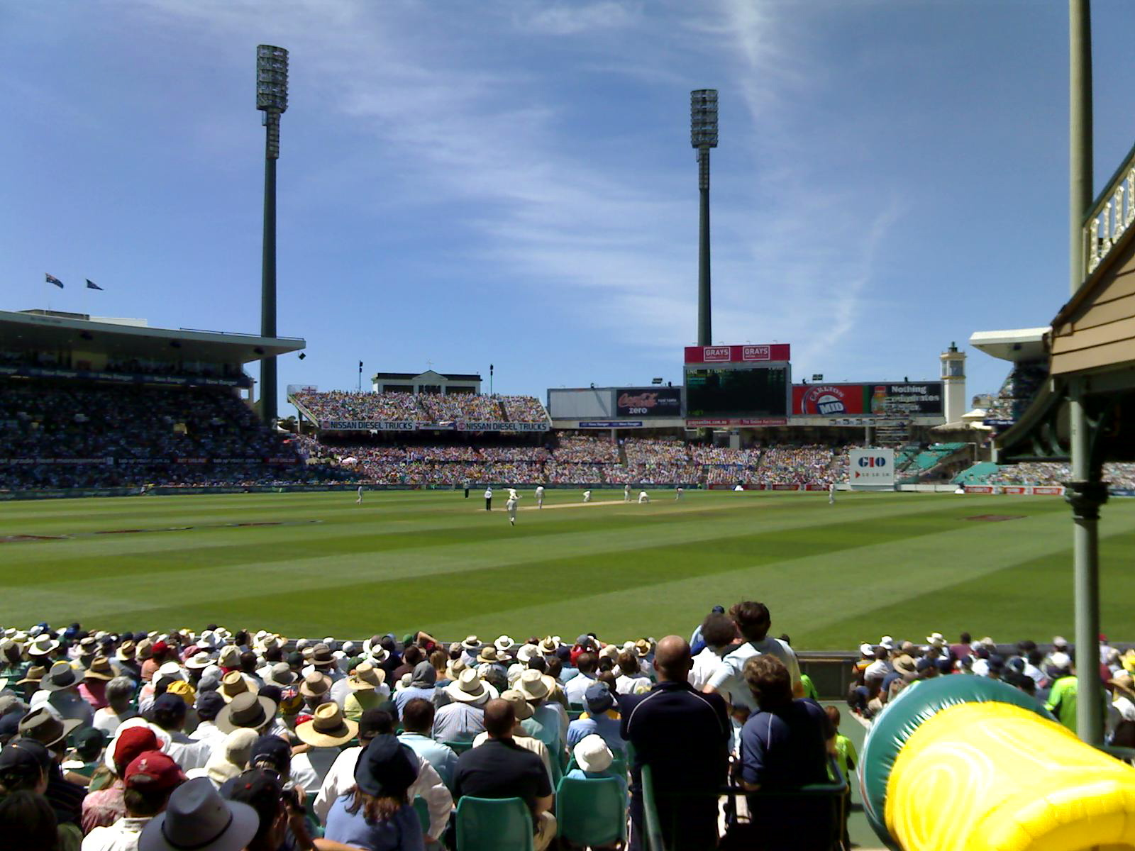 Taken by myself, this morning, at the Sydney Cricket Ground. Shane Warne is pictured bowling one of his last balls in Test cricket to Jimmy Anderson of England.